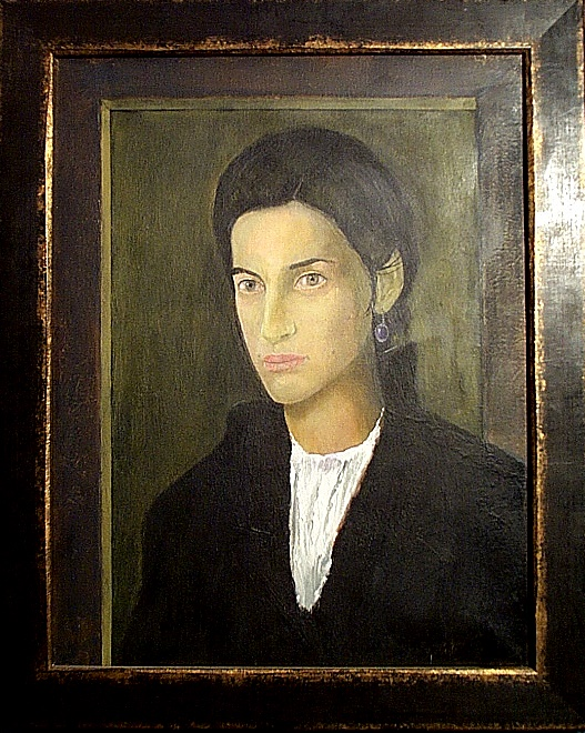 "The White Blouse", by Reginald Gray. Egg tempera and marble dust on canvas. This portrait won the Sandro Botticelli Prize, in Florence, 2006